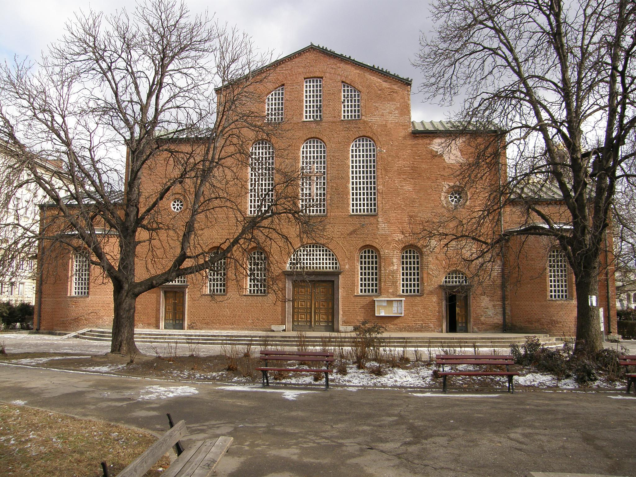 The basilica of Hagia Sofia. It is the church that gave the name to Sofia, the capital of Bulgaria. Basilica of Hagia Sophia, Sofia